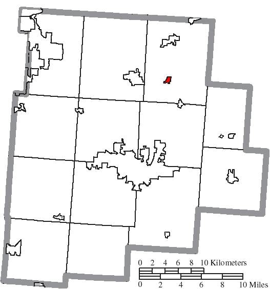 Map of the municipal and township boundaries of Fairfield County, Ohio, United States, as of the 2000 census, with the location of the village of Thurston highlighted. Township borders are shown only in unincorporated areas in order to differentiate incorporated and unincorporated areas more clearly.